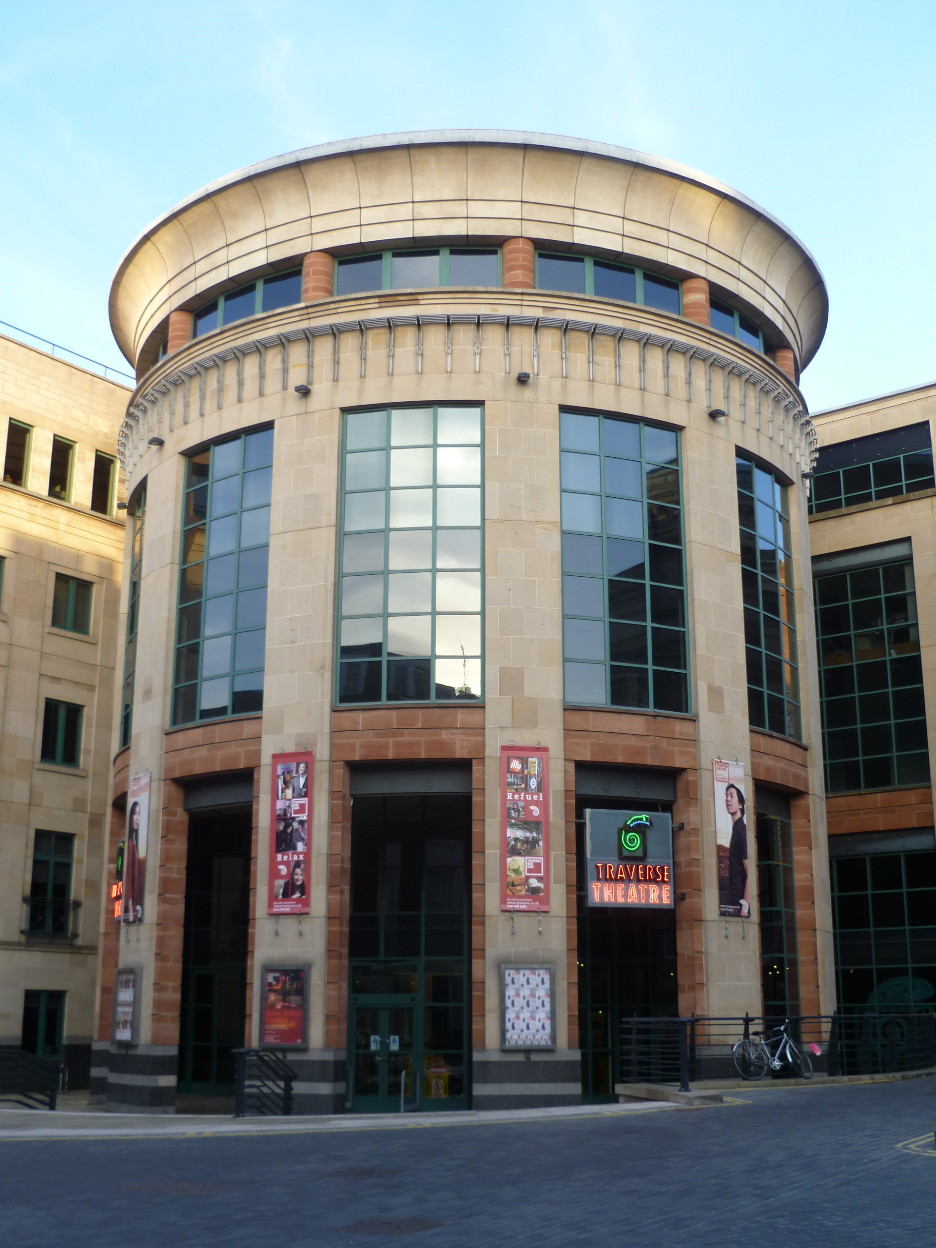 Traverse Theatre, Edinburgh